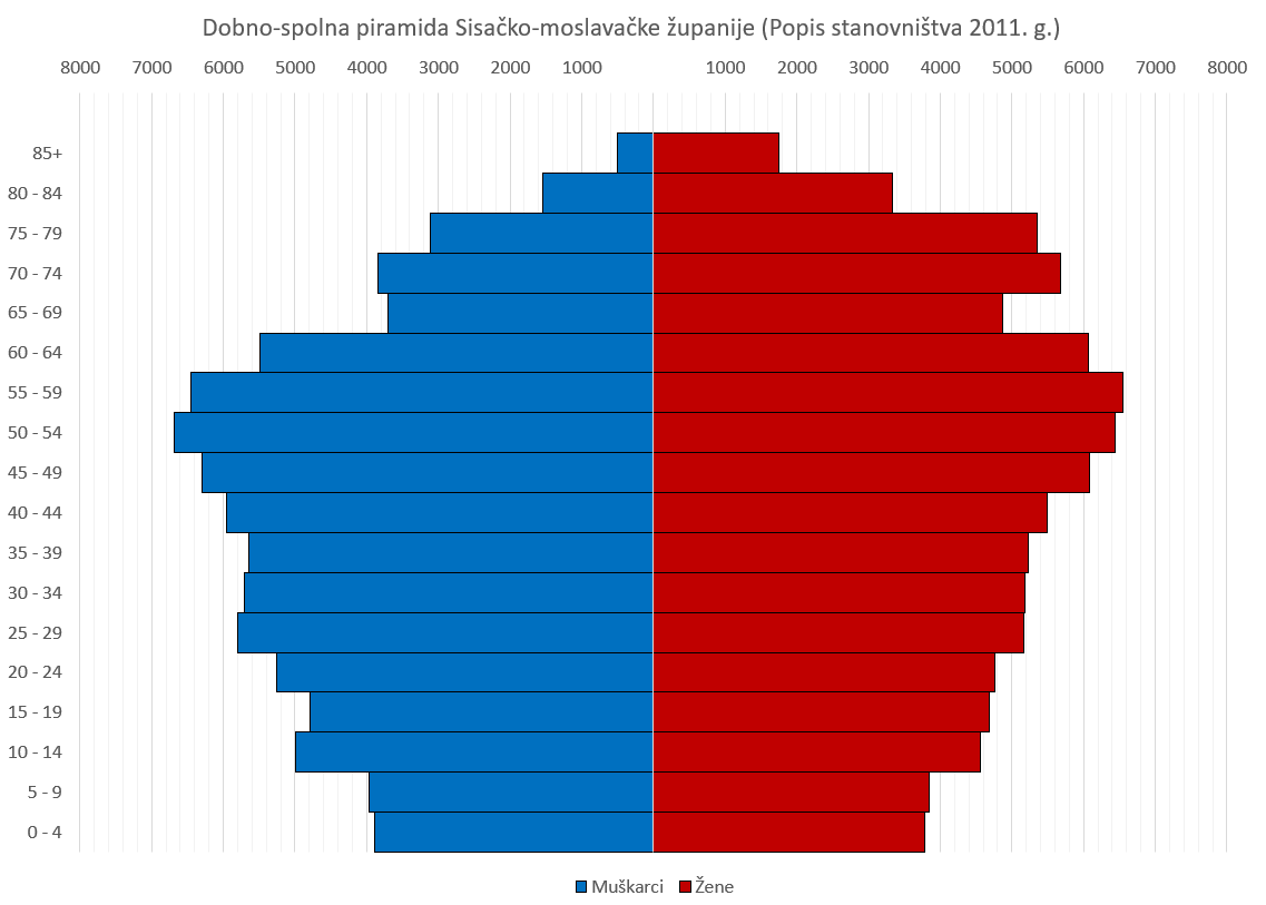 Population pyramid of Sisak-Moslavina County. Version in Croatian. Data from 2011 Census; available at